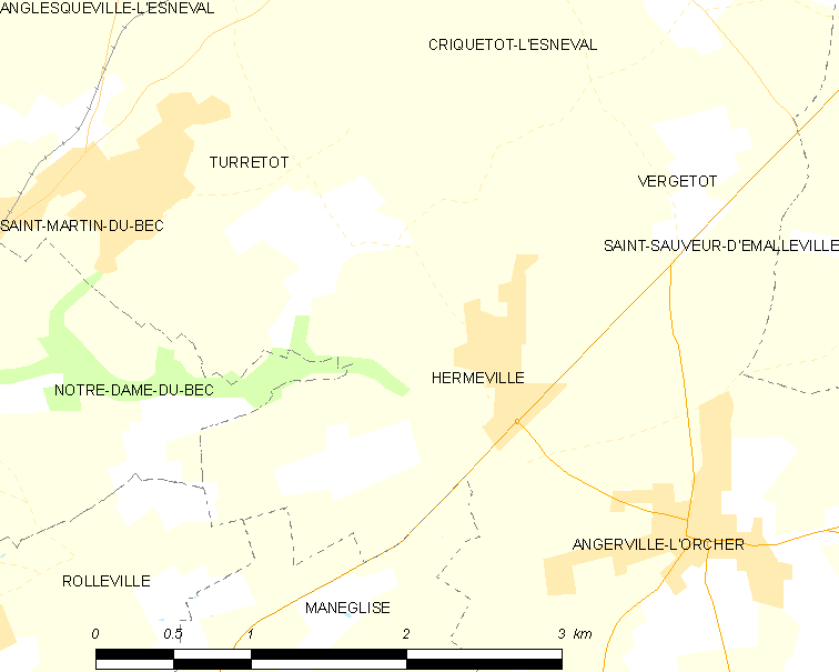 Map of French municipality Hermeville